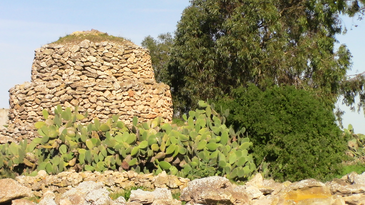 A Tazota, Municipality of Sidi Abed, Province of el-Jadida, Morocco